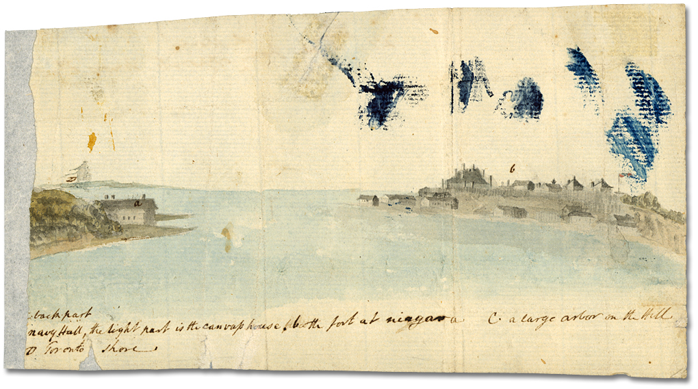 Navy Hall, the part is the canvas house b) The fort at Niagara c) A large arbour in the HiIl d) Toronto Shore